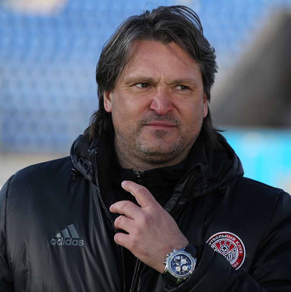 Vadim Evseev managing FC Amkar Perm in a game against FC Tosno.